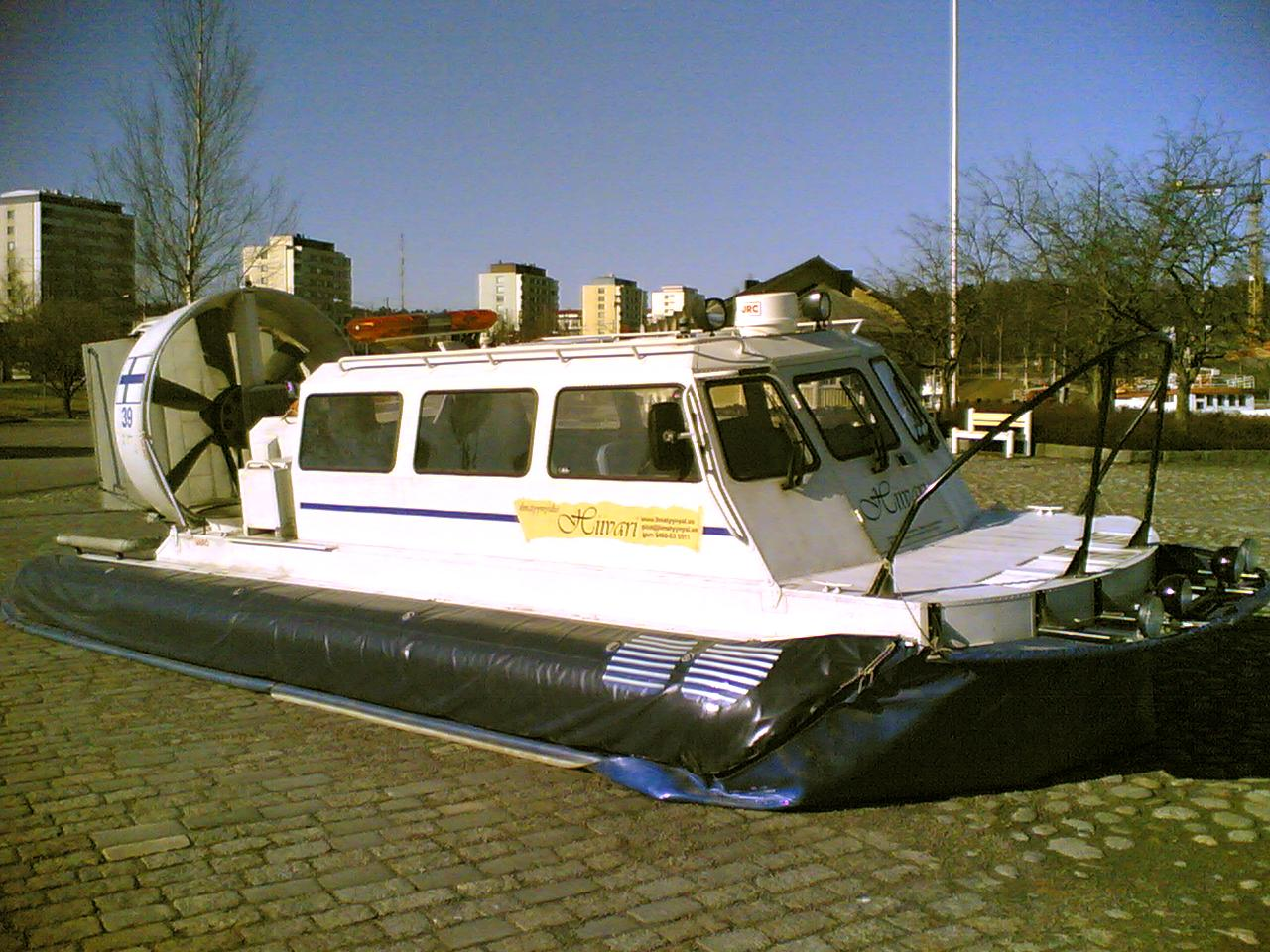 Finnish hovercraft "Hiivari" in its home port Mustalahti by Lake Näsijärvi. Picture taken by Teemu Mäki.